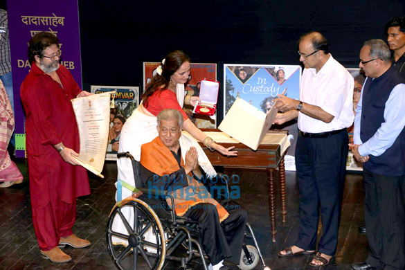 Shashi Kapoor receives Dada Saheb Phalke Award 2015